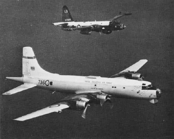 A Canadair Argus Mk. II from No. 415 (MP) squadron of the Royal Canadian Air Force (s/n 10736, foreground) flying in formation with a U.S. Navy Lockheed P-2H Neptune of patrol squadron VP-18. The Argus was later redesignated "20736" and flew the last operational Argus sortie on 24 July 1981, while with No. 415 (MP) Squadron, CFB Summerside, Prince Edward Island, Canada. It was scrapped in 1982.